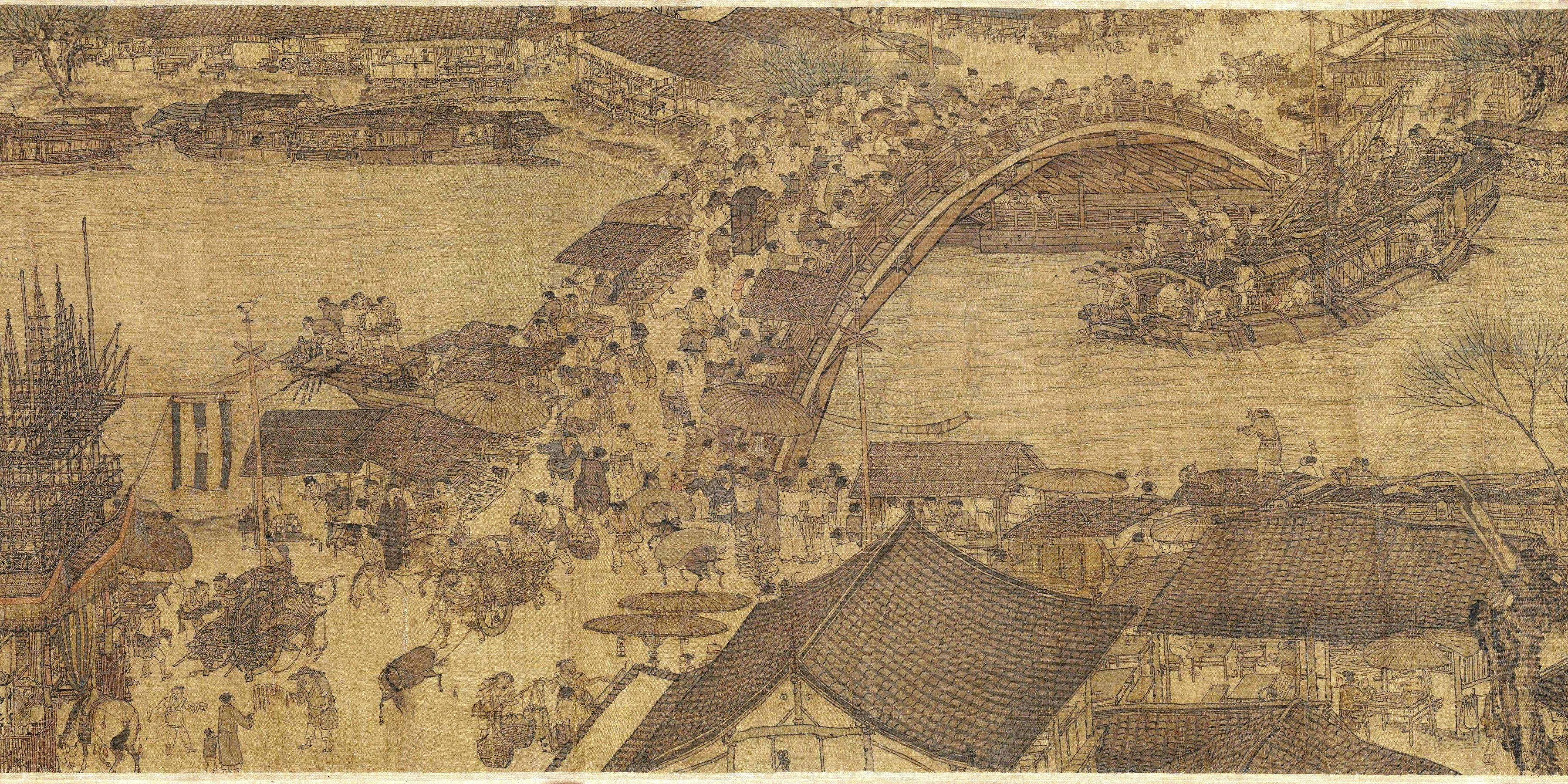 Along the River During the Qingming Festival, detail of the original version showing wooden bridge